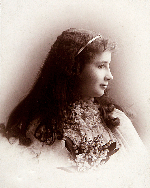 Helen Adams Keller (1880-1968); Collodion print on card